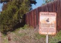 color photo of fence and sign